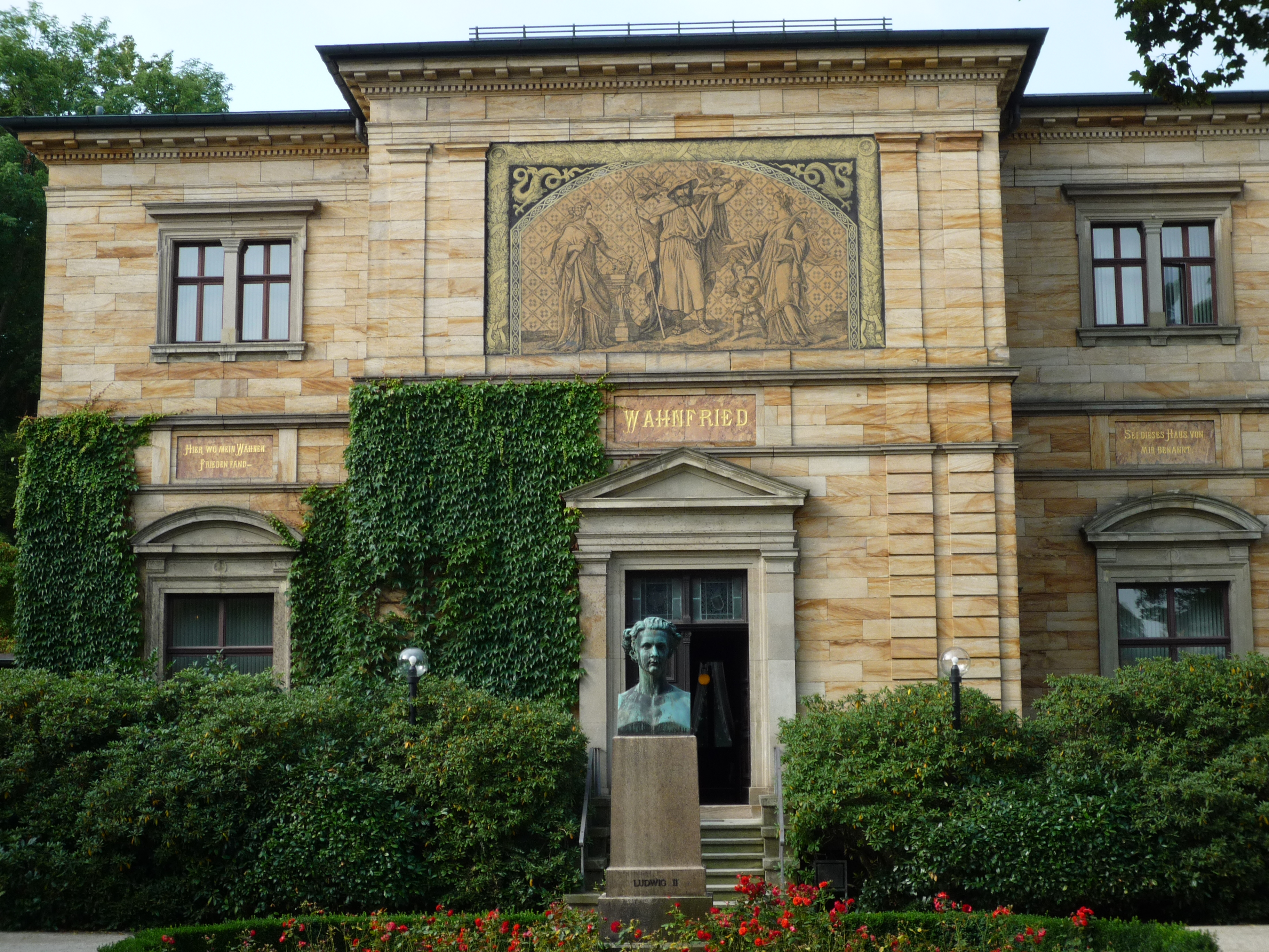 Picture of the facade of Haus Wahnfried, Wagner's house in Bayreuth